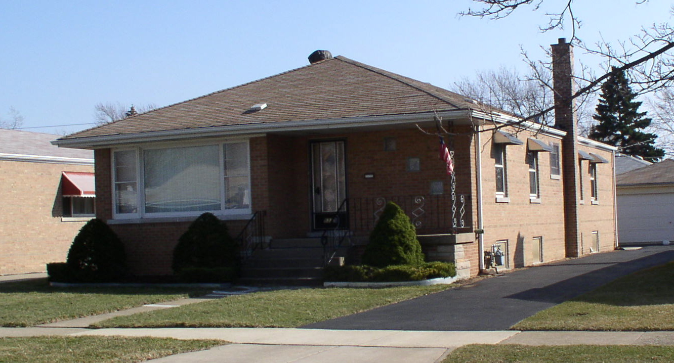 "Chicago bungalow" with detached garage, in southwest suburban Chicago